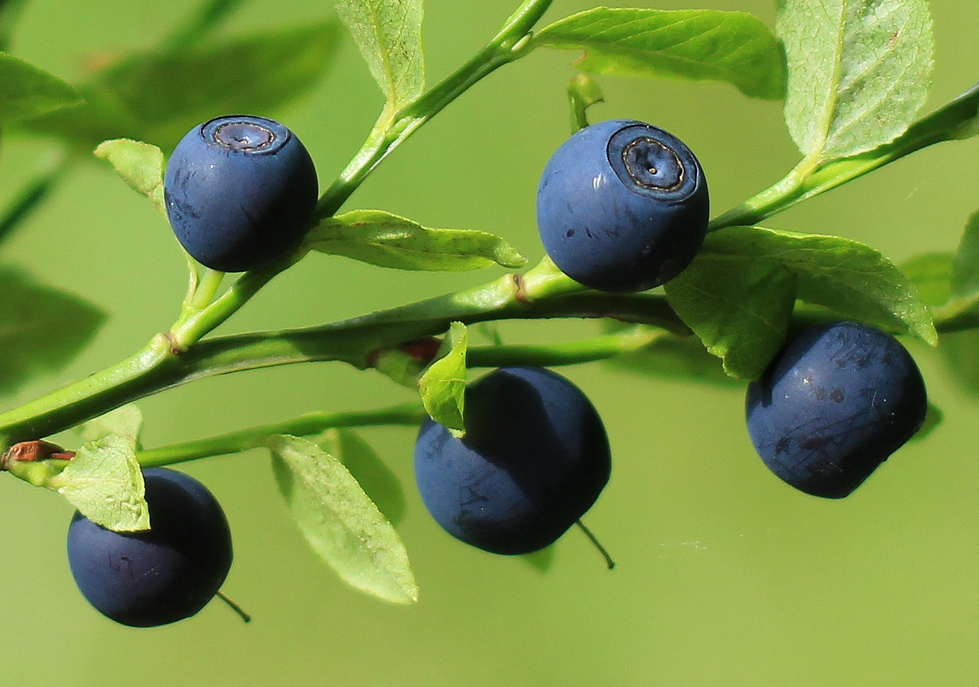 European blueberries (common bilberry or blue whortleberry) on the branch. Photography in a forest of Saxony, Germany.